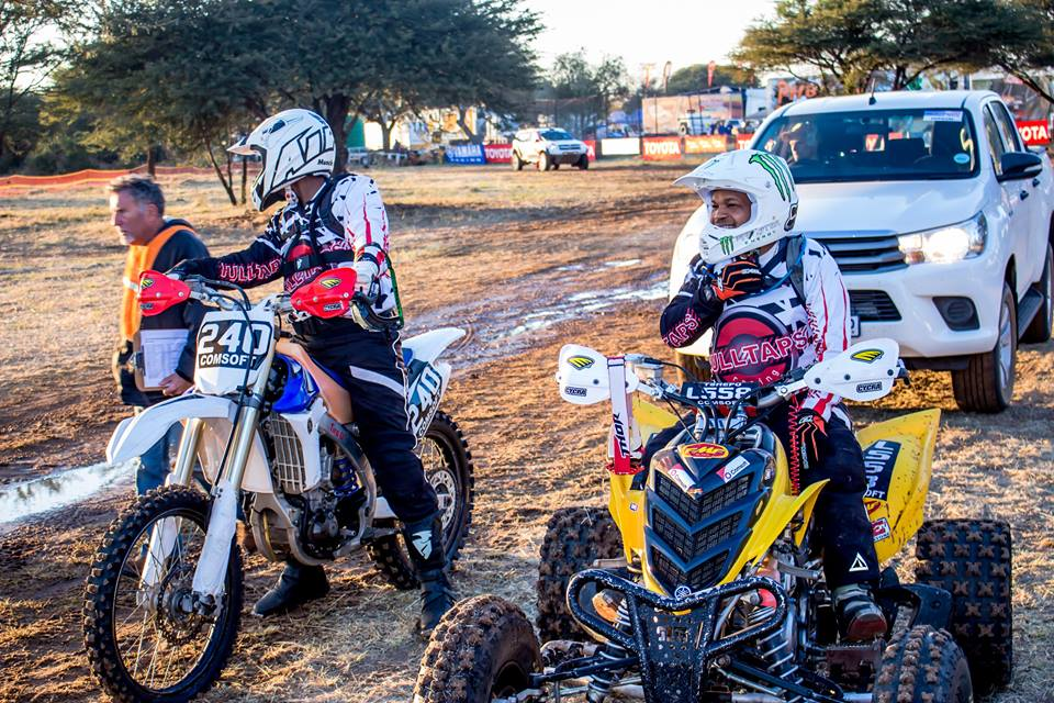 Motor Start of Toyota Kalahari Botswana 1000km racing